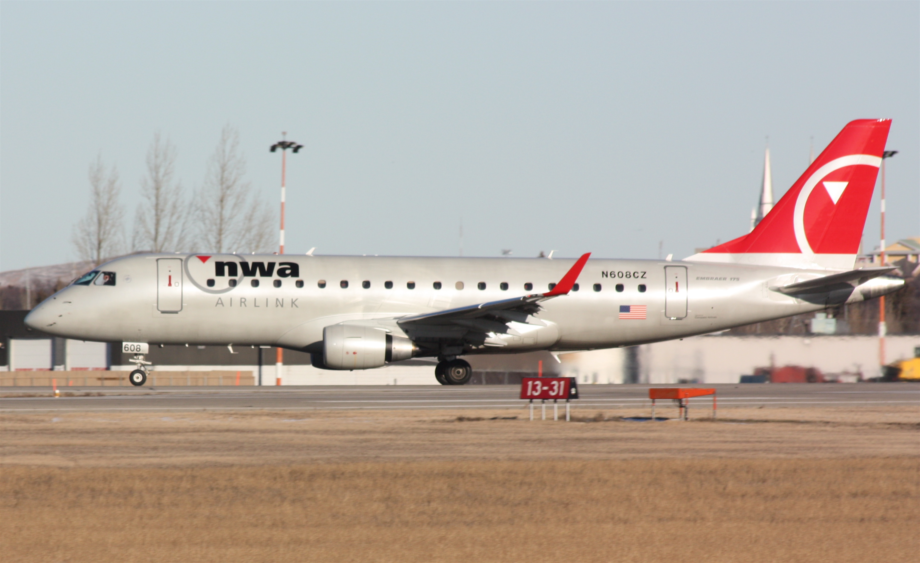 Compass Airlines E175 taking off from runway 31 at Unkown?